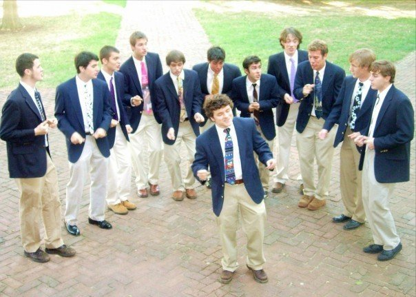 The Gentlemen of the College, the oldest all-male acapella group at The College of William and Mary. Here, they are a performing at Parent's weekend at the College in 2007.